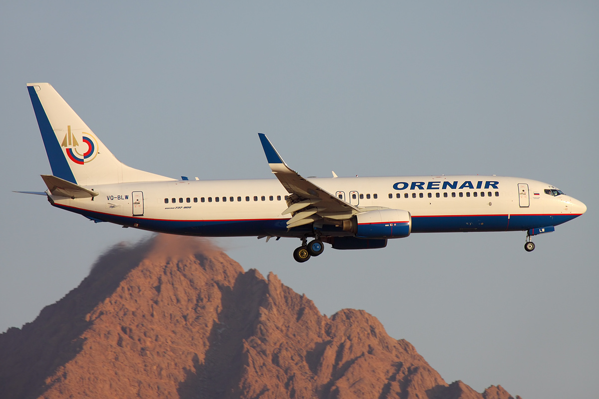 An Orenair Boeing 737-85P on short final to Sharm El Sheikh International Airport (SSH / HESH)